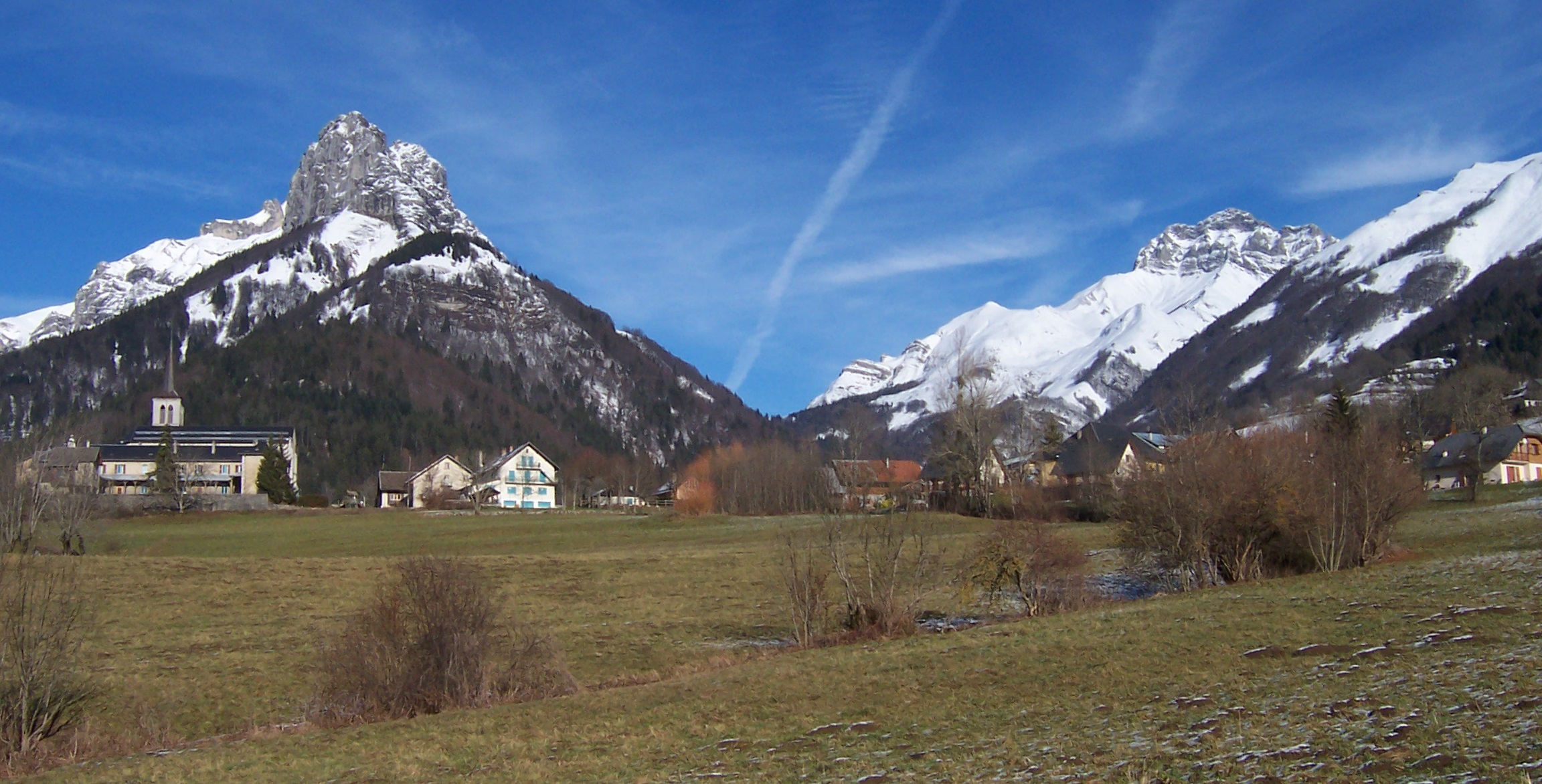 village of Jarsy (Savoie, France), in front of Dent de Pleuven (left) and Mont Arcalod (right)